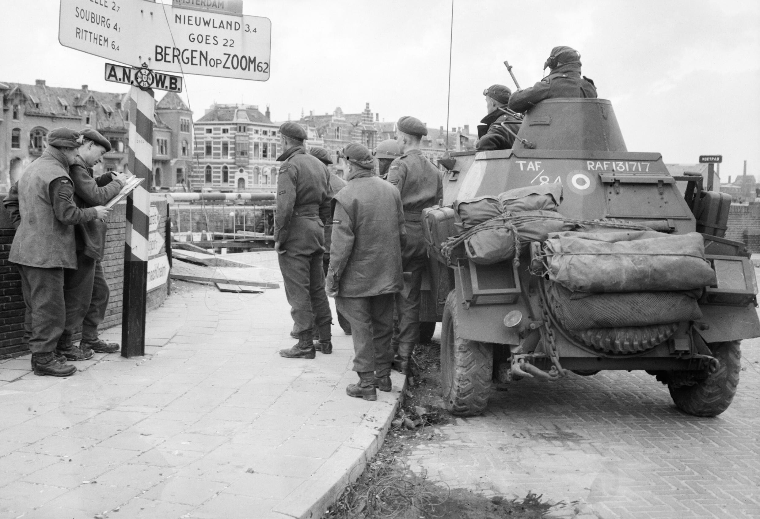 An RAF Humber light reconnaissance car in Middelburg, Holland, November 1944. An RAF Humber light reconnaissance car in Middelburg, Holland, November 1944.